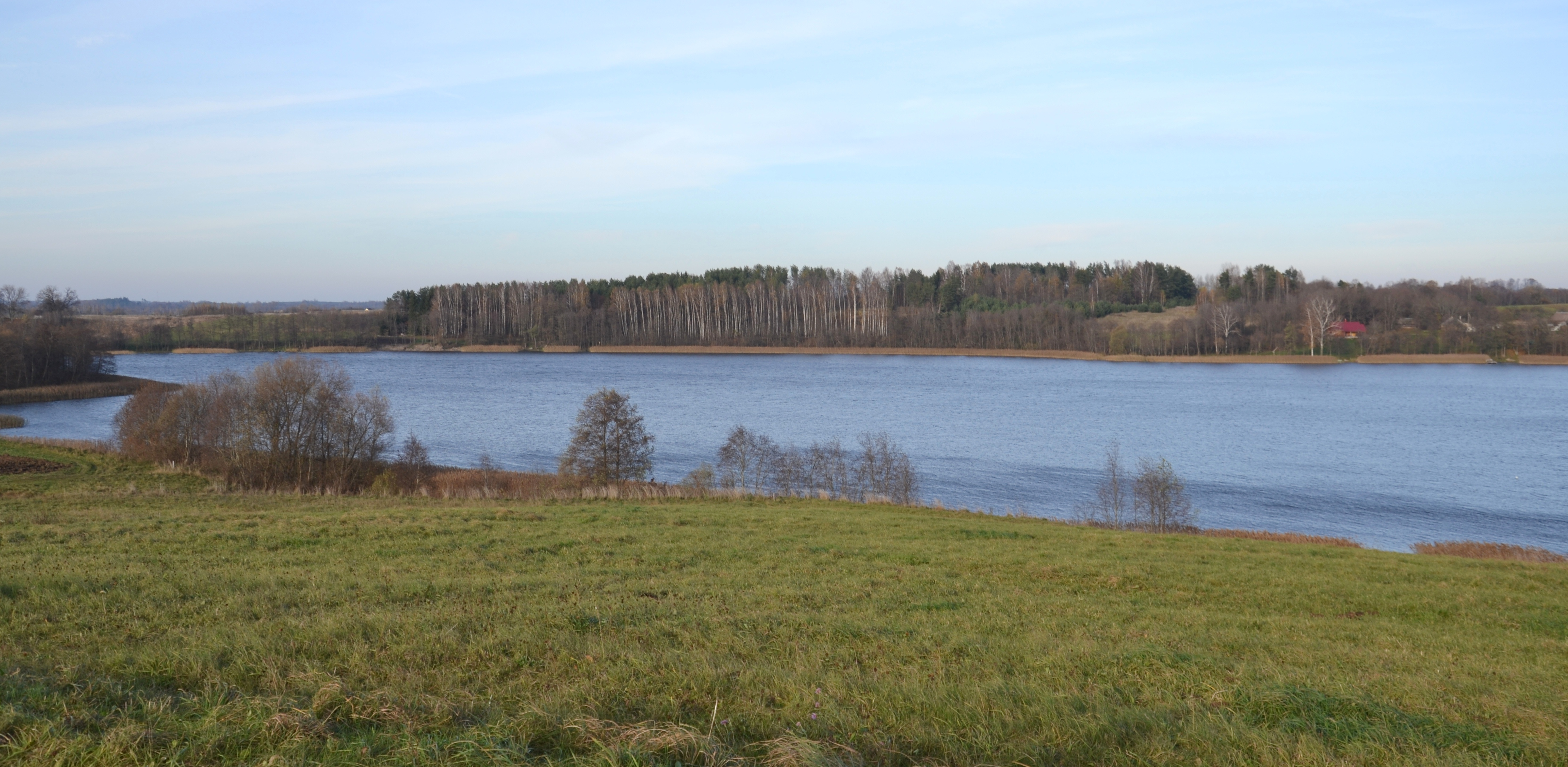 Pieštuvėnai lake, Prienai district, Lithuania